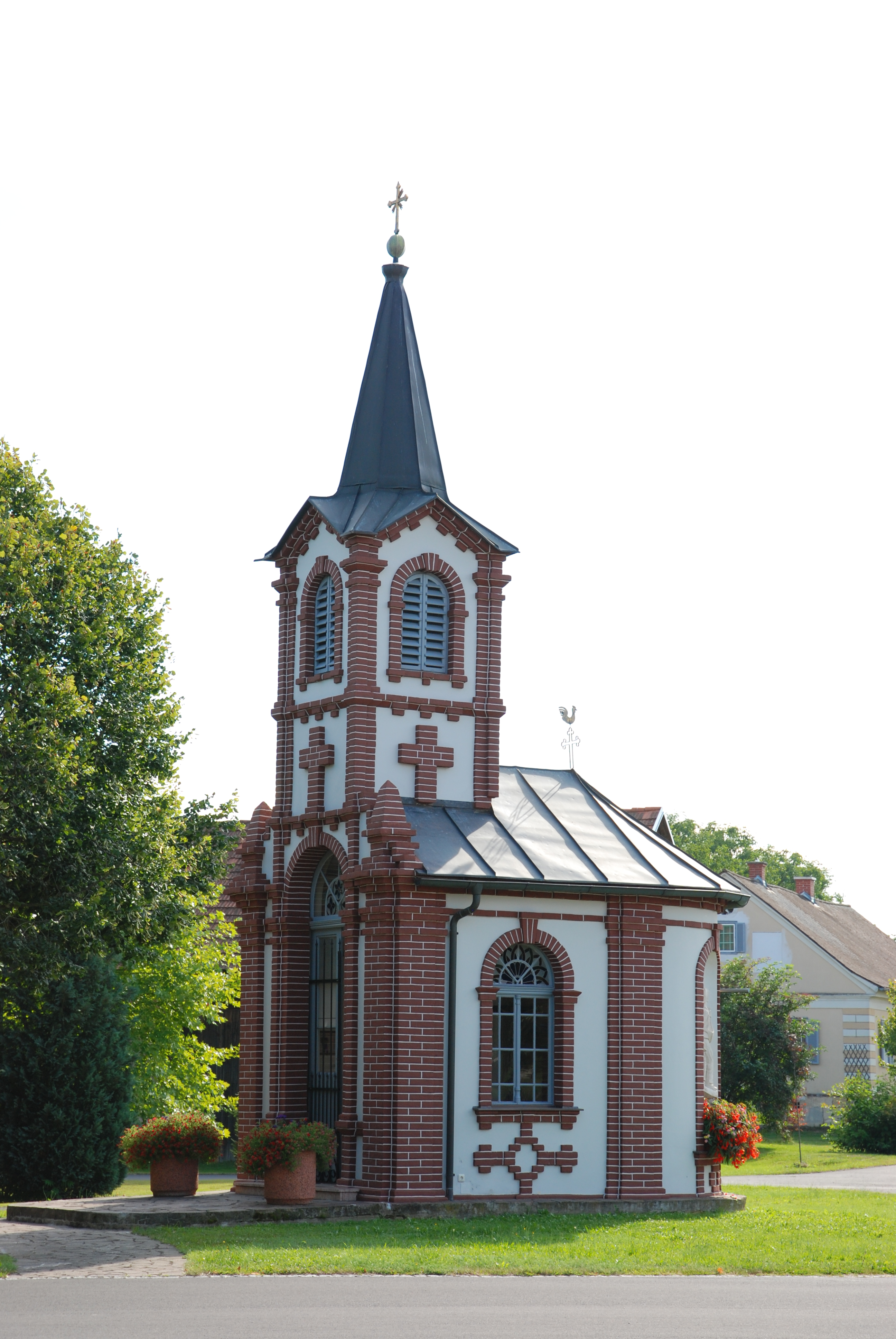 Ortskapelle Sicheldorf